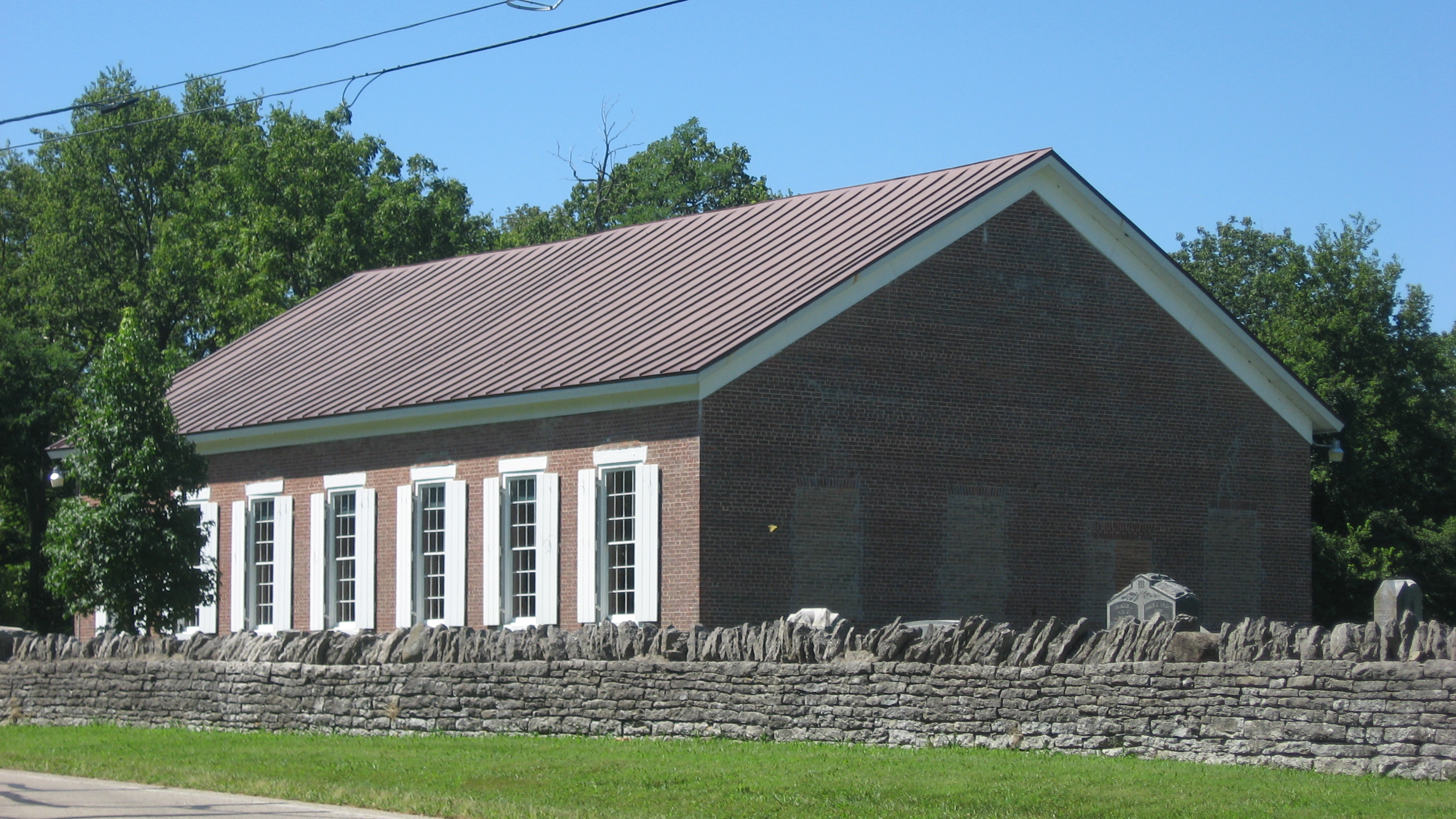 Northern and eastern sides of the former Hopewell Associate Reformed Presbyterian Church, located at 6471 Camden-College Corner Road in Israel Township, Preble County, Ohio, United States. Built in 1825, the church and its cemetery are listed together on the National Register of Historic Places.